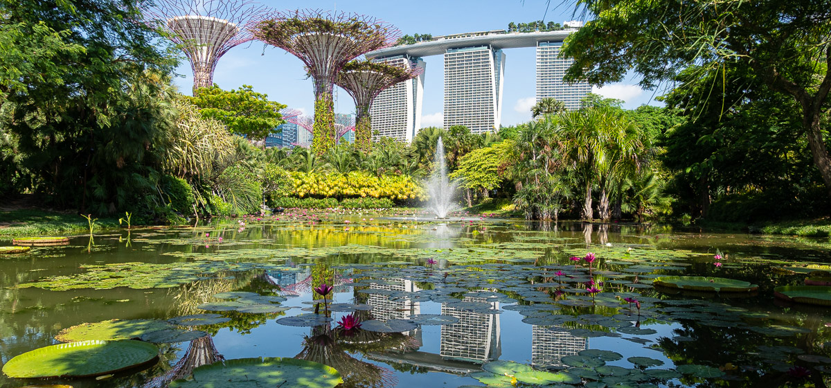 This photograph illustrates how Singapore's architecture has succeeded in bringing nature back into an urban city. Here, tropical trees and aquatic flora foreground the artificial Super Trees and the luxury hotel, the Marina Bay Sands.